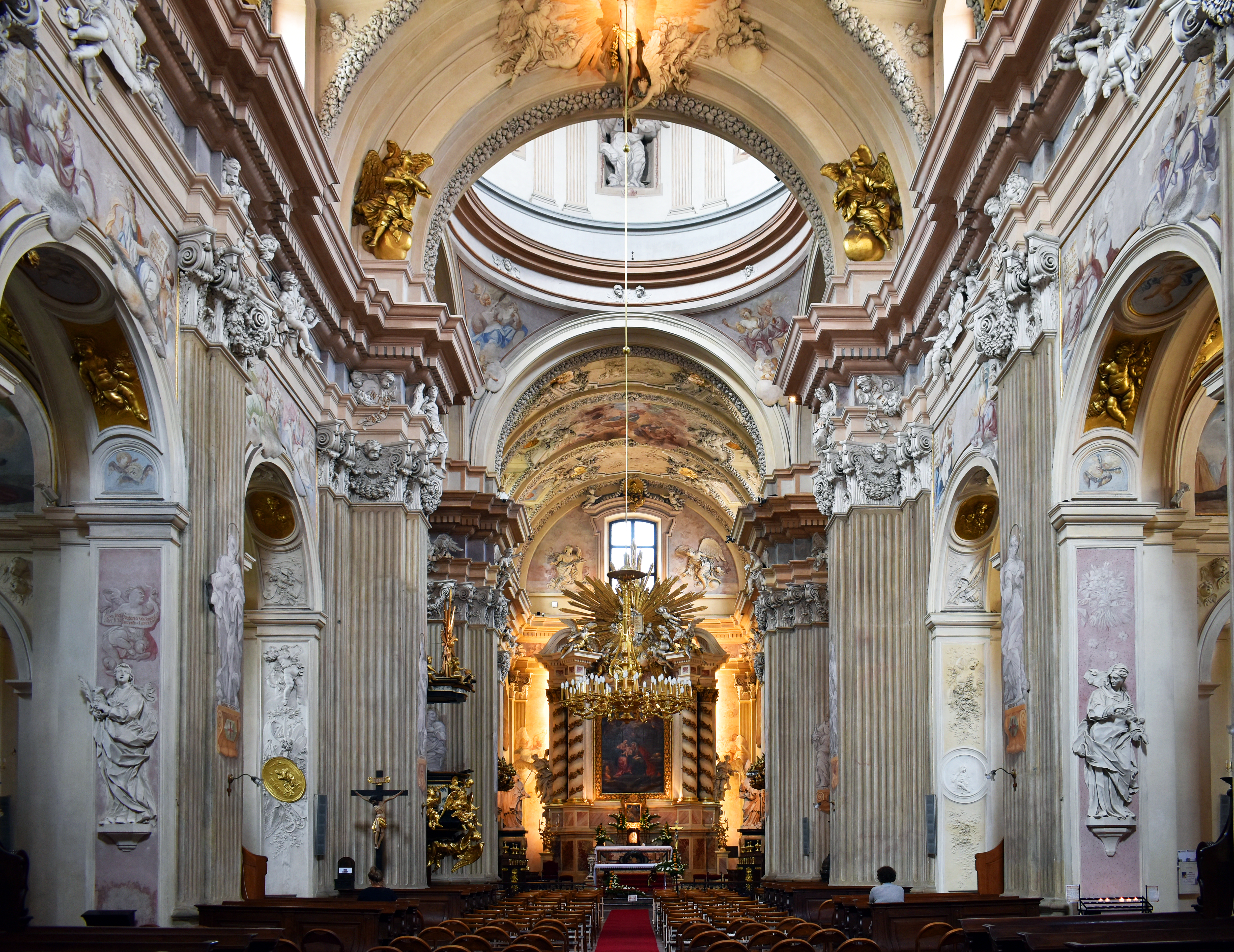 Church of St. Anne (interior), 13 sw. Anny street, Old Town, Krakow, Poland